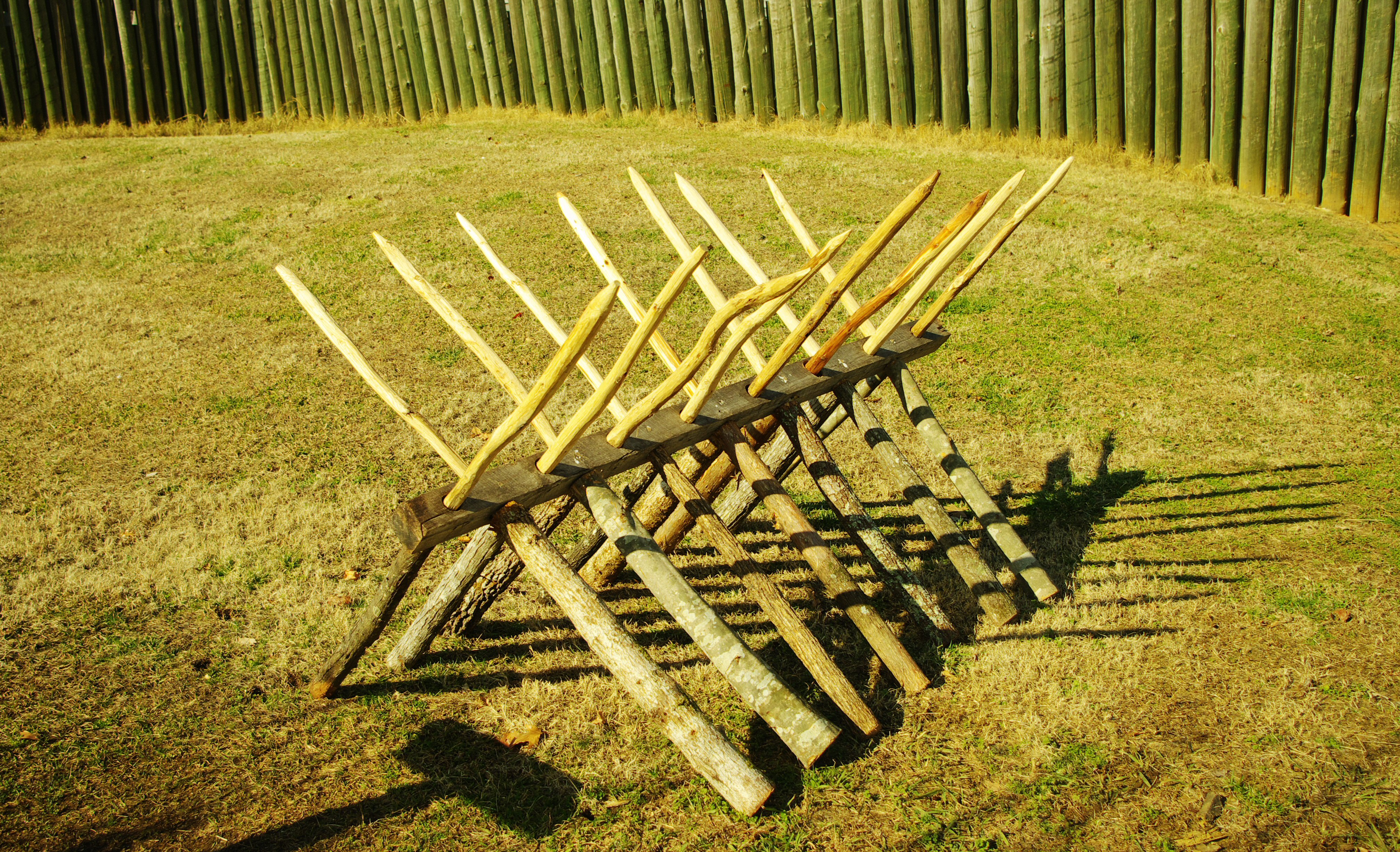 Chevaux de frise at Fort Loudoun in Monroe County, Tennessee, United States.